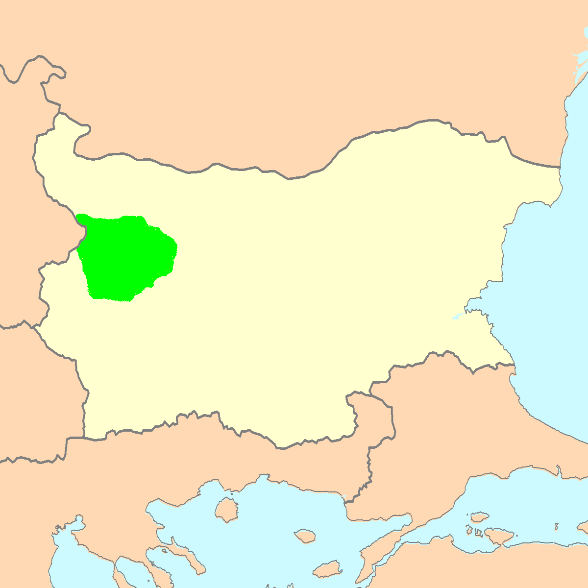 West Stara Planina Sheep area of distribution